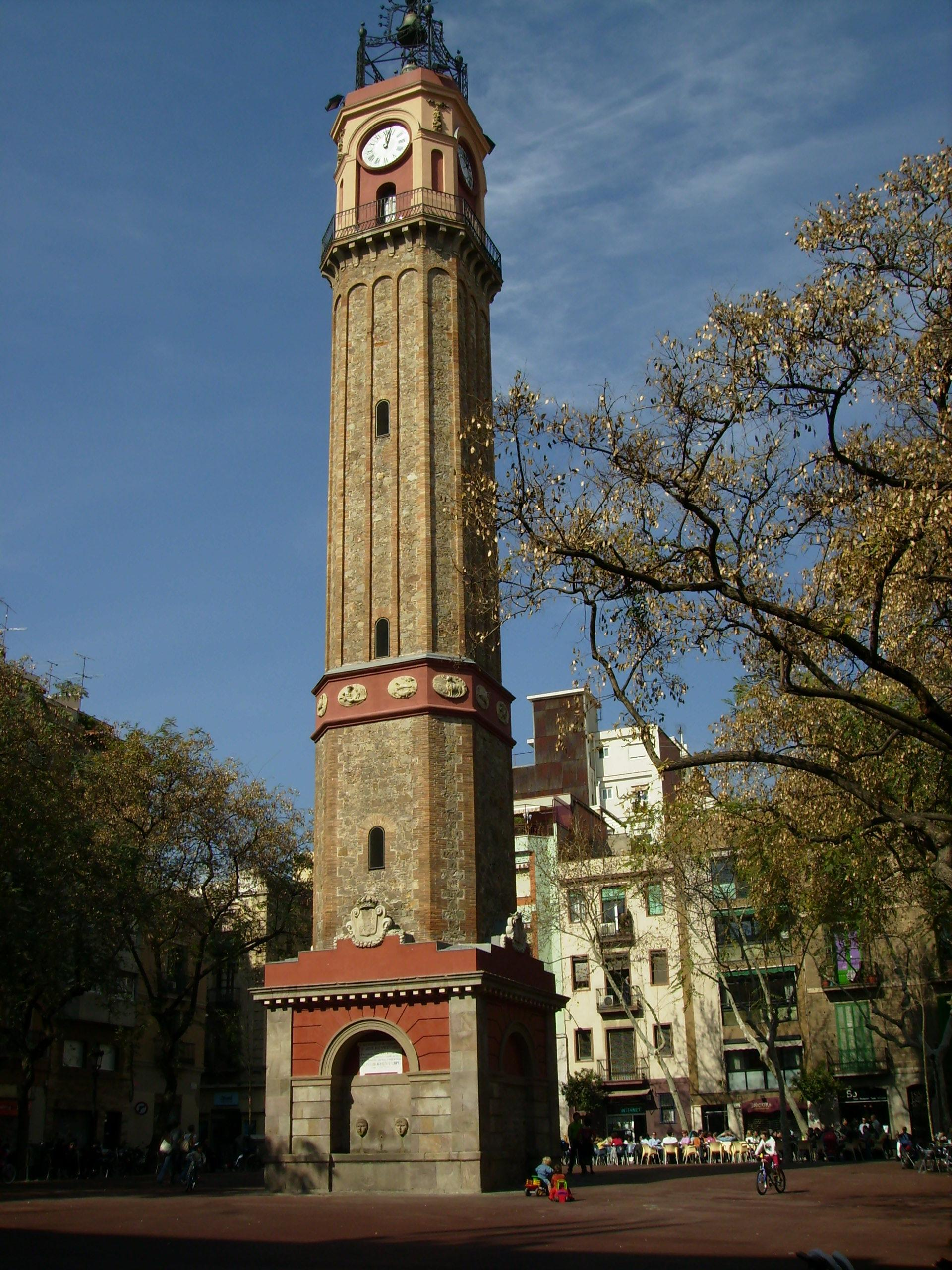 Square Rius i Taulet in Gracia - Barcelona (Catalonia)